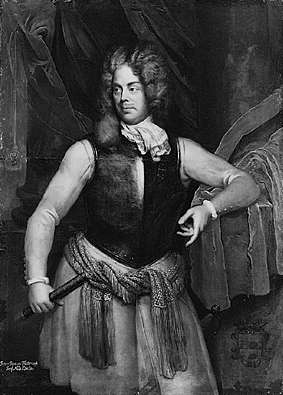 Portrait of Nils Bielke (1644-1716)